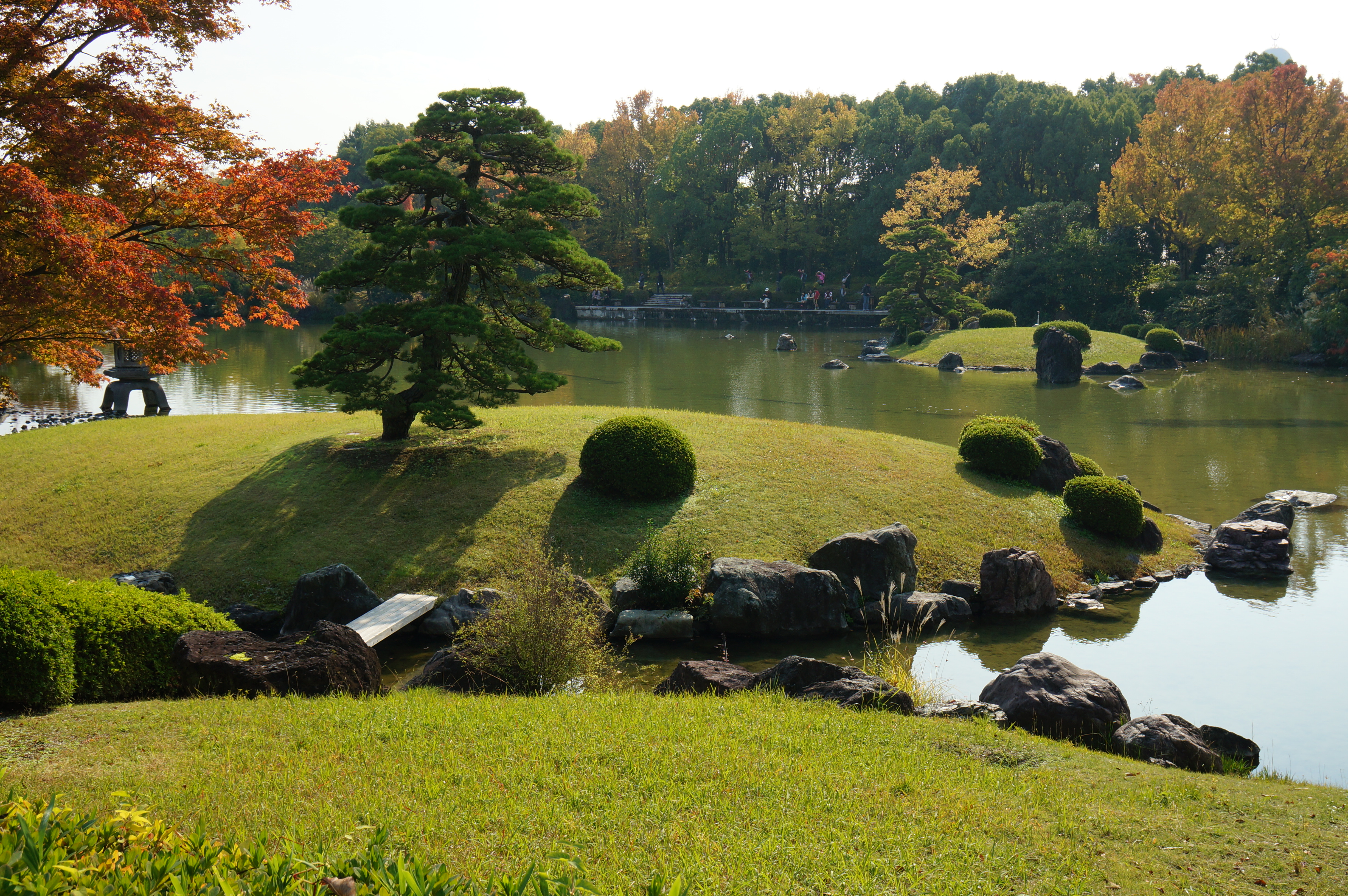 At Expo '70 Commemorative Park in Suita, Osaka prefecture, Japan.